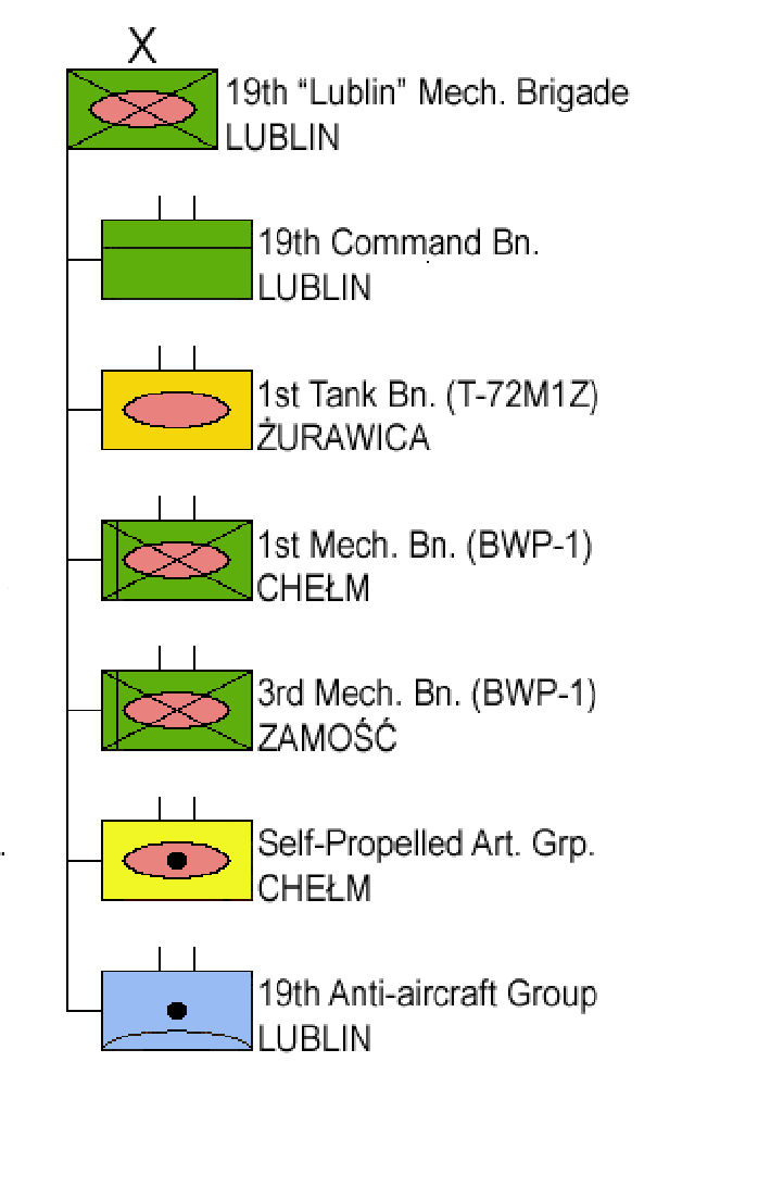 Polish 19th brigade structure